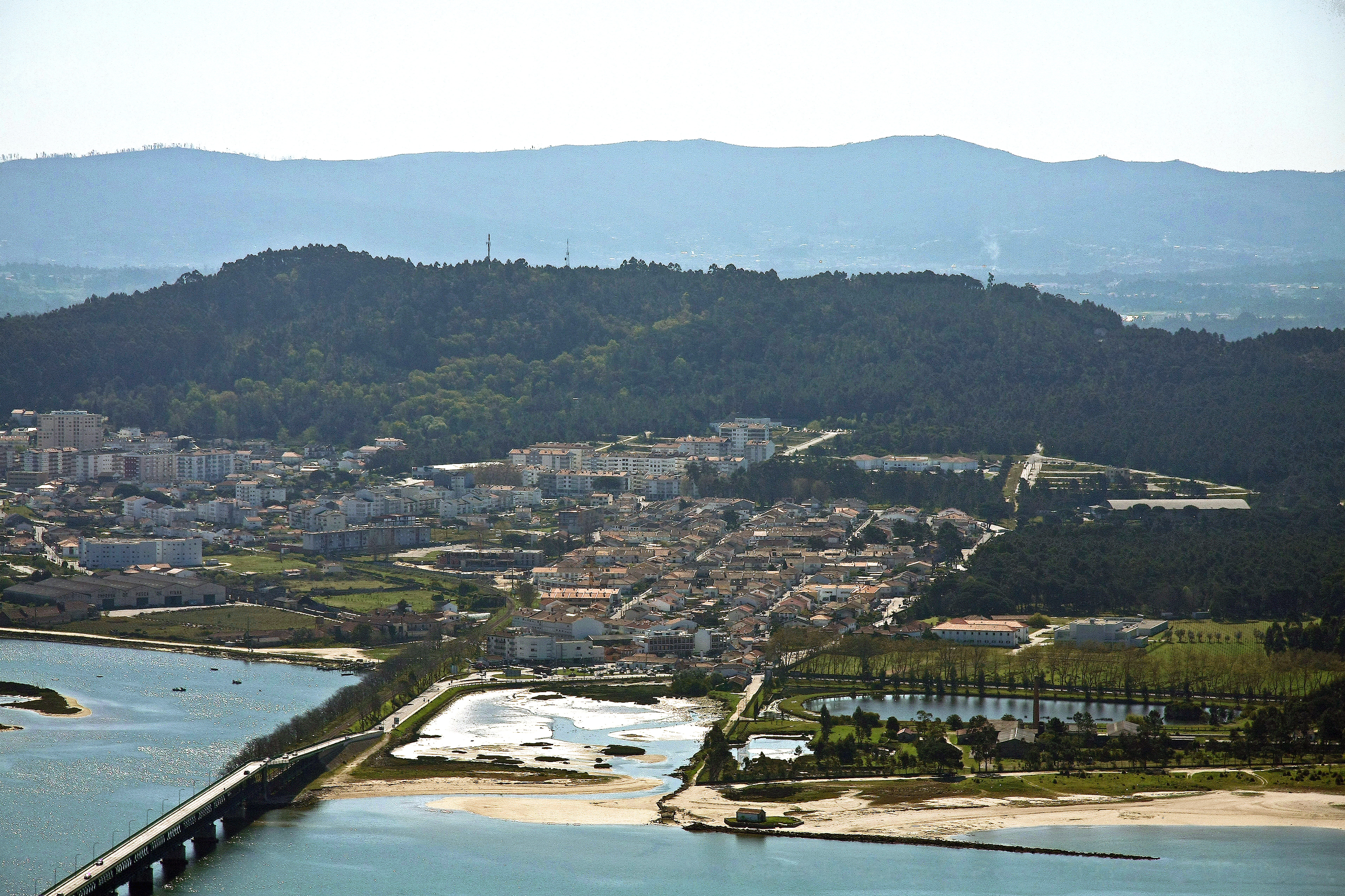 See where this picture was taken. [?]